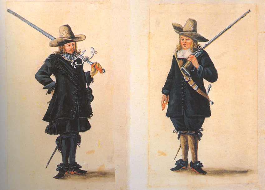 17th century soldiers from the Schützenkompanie of Bremen, Germany. Left-hand a Freischütze with a two-handed sword, right-hand a angehender Schütze with a musket. Watercolor paintings from the Koster-Chronik.